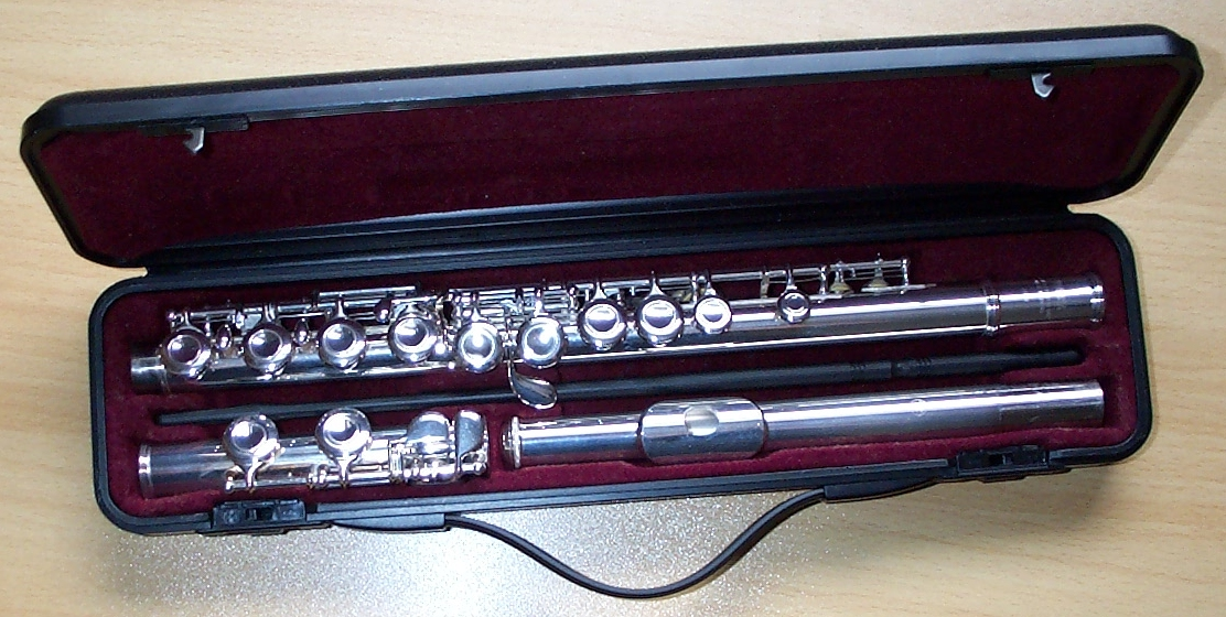 Take-down flute in case. Also see Western concert flute (This File was originally uploaded by me, J.P.Lon on English Wikipedia, Here.)